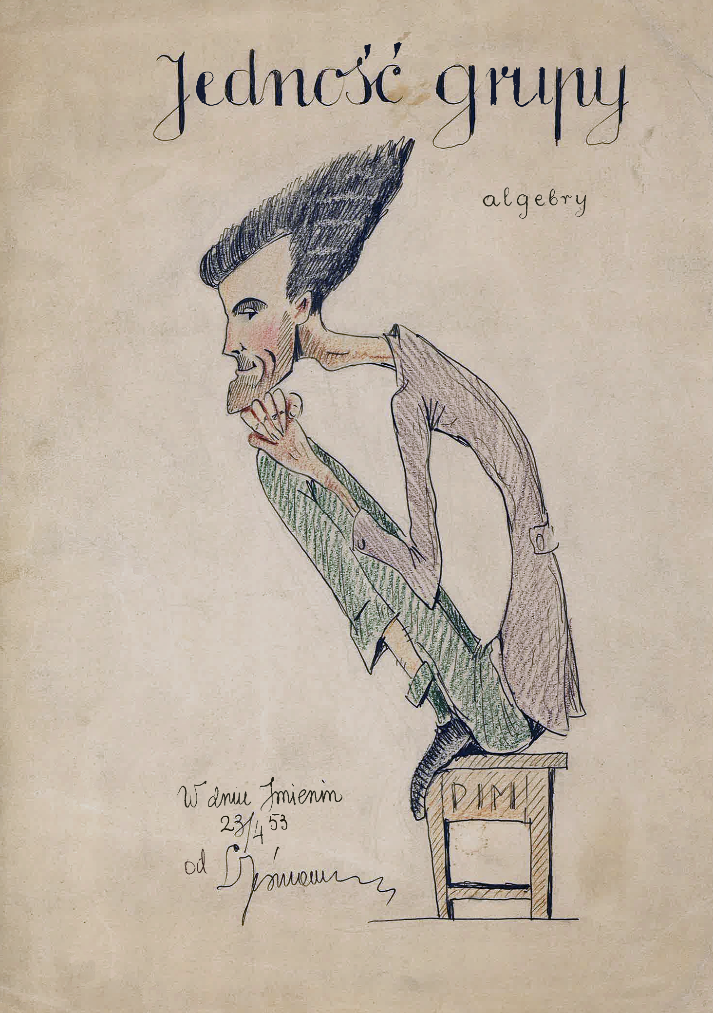 prof. Jerzy Łoś. A caricature by prof. Leon Jeśmanowicz from 1953, showing Łoś as a head of the Algebra Group of Polish Marhematical Institute